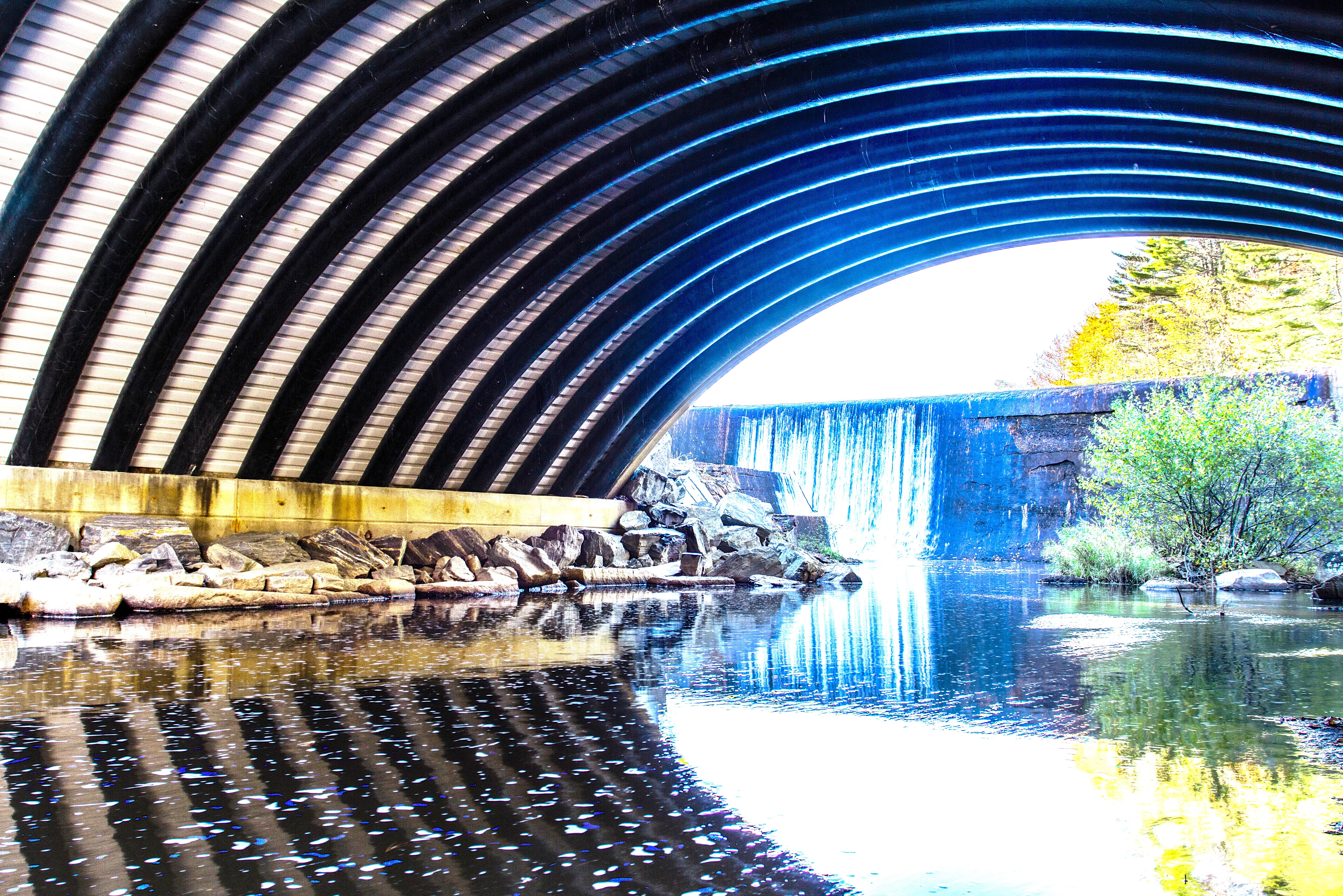 Perkins Bridge in Belfast, ME – Completed in 2010 by Advanced Infrastructure Technologies. 48.0’ Span, 16 Arches